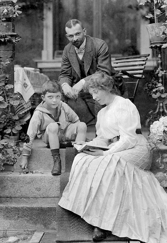 Viebig, Clara - Author, Germany *17.07.1860-+ - with her husband Friedrich Theodor Cohn and son Ernst - 1906